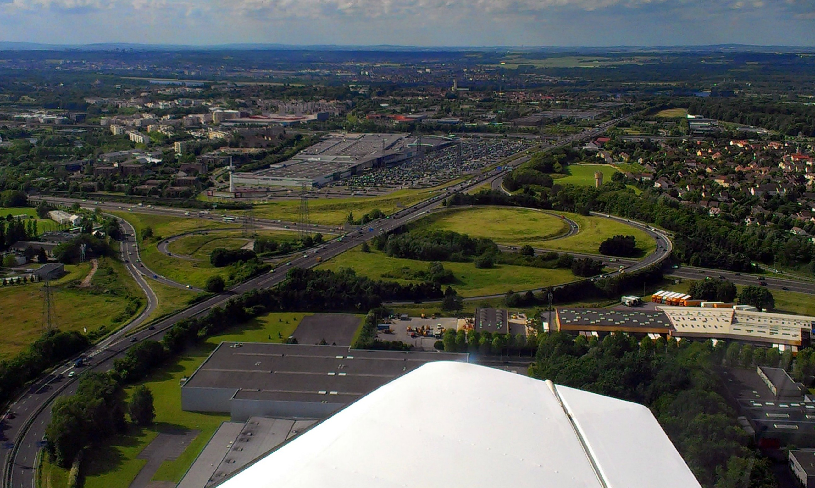 Aerialview of the interchange of A4 and A104 highways, at 20 km from Paris, France. This interchange is located on three communes of Seine-et-Marne: Collégien, Croissy-Beaubourg and Torcy.